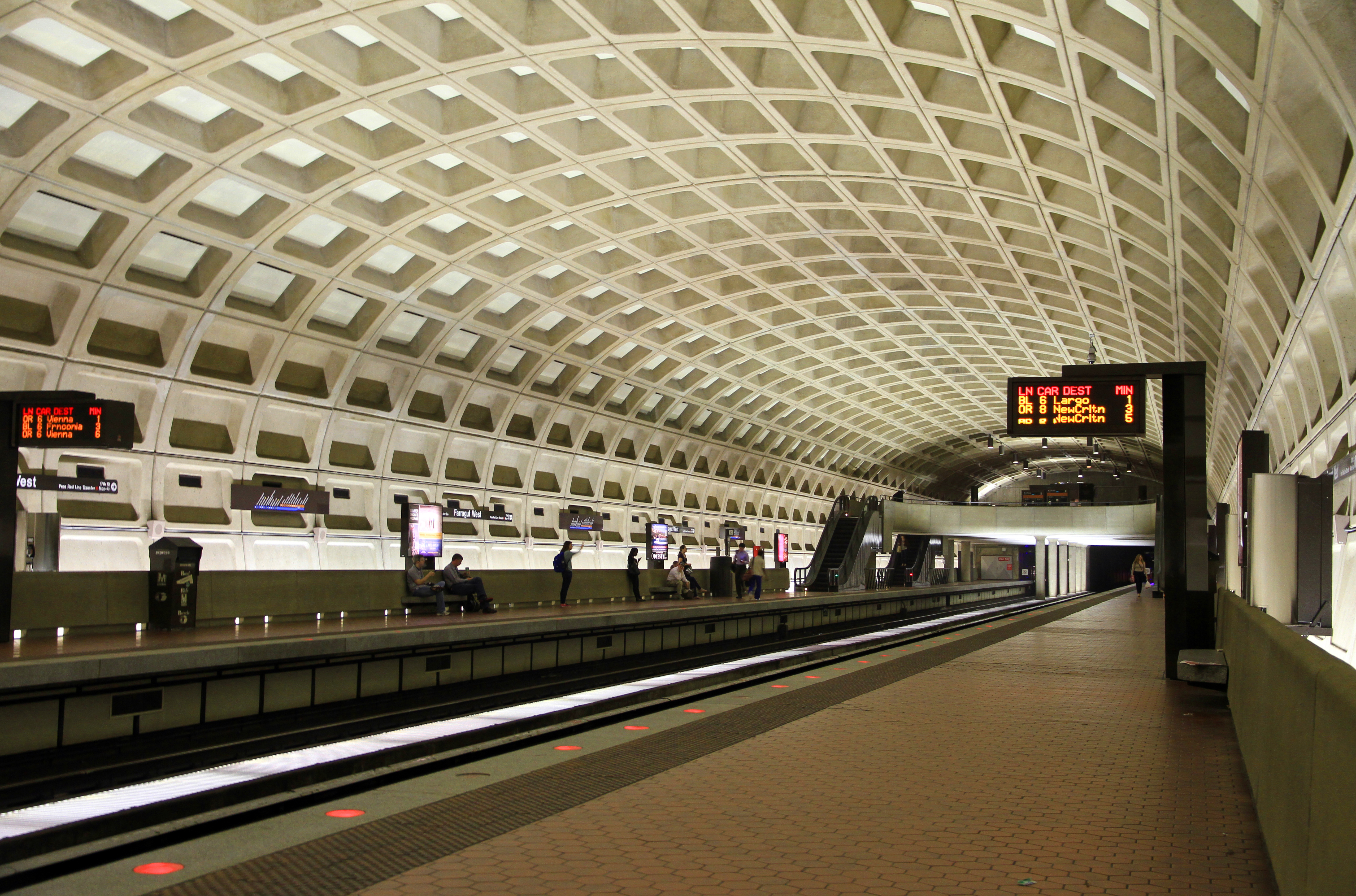 Washington Metro, Farragut West Station